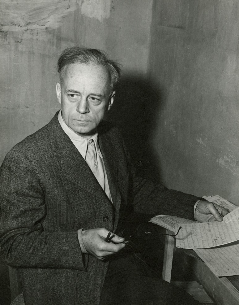 Foreign Minister of Germany Joachim von Ribbentrop photographed in his cell at the Nuremberg Trials, Nuremberg, Germany. Gelatin silver process on paper. 28 cm x 35.3 cm. Image courtesy of the Harvard Law School Library, Harvard University, Cambridge, Mass.